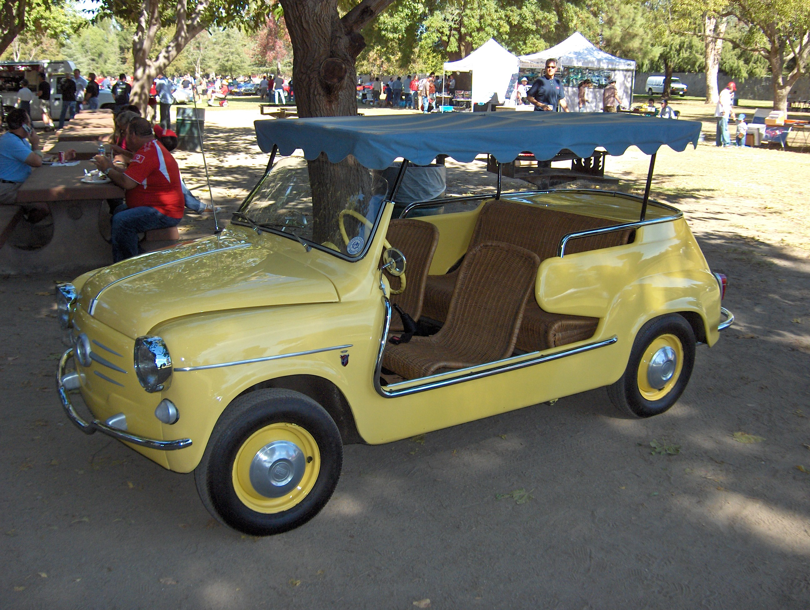 Own photo - public location. Fiat 600 D Jolly Ghia - 1964